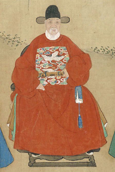 Liu Daxia, politician of the Ming Dynasty.